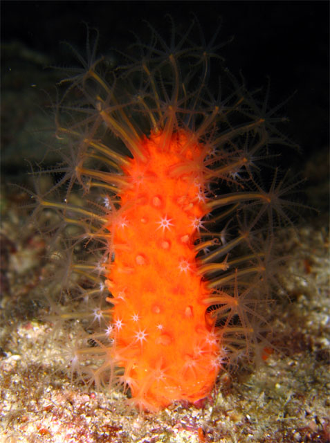 Leather coral (Paraminabea aldersladei), Pulau Aur, West Malaysia